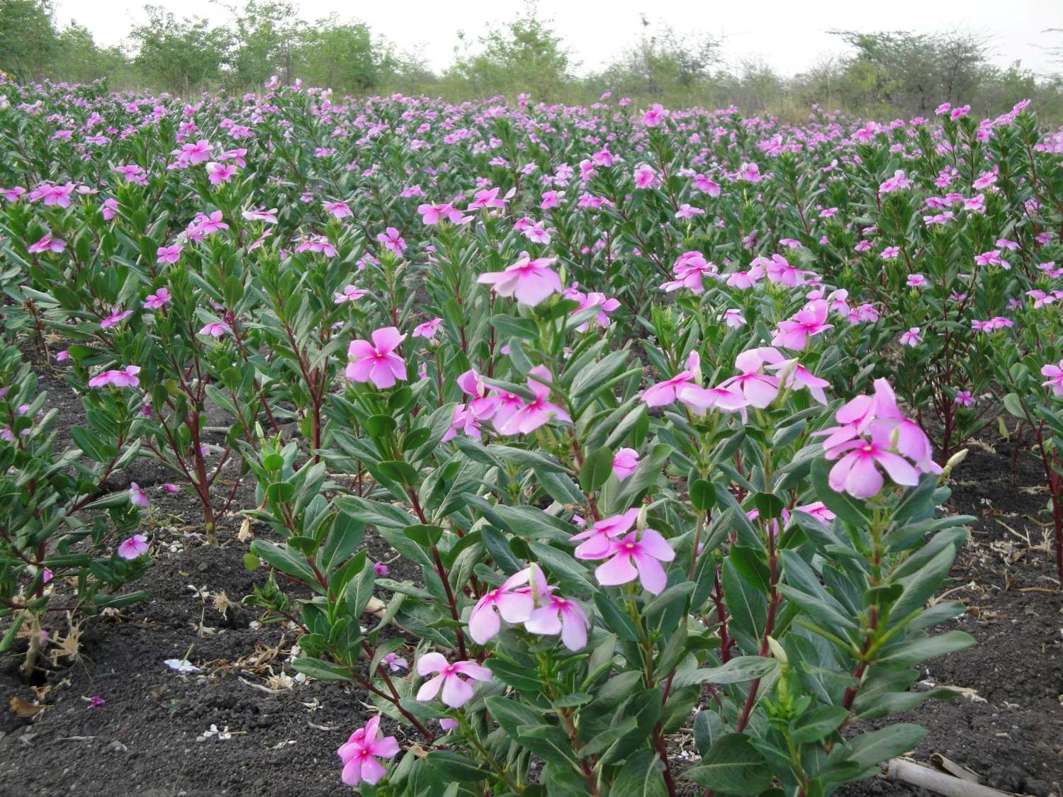 Perwinkle cultivation in Sankarapandiapuram